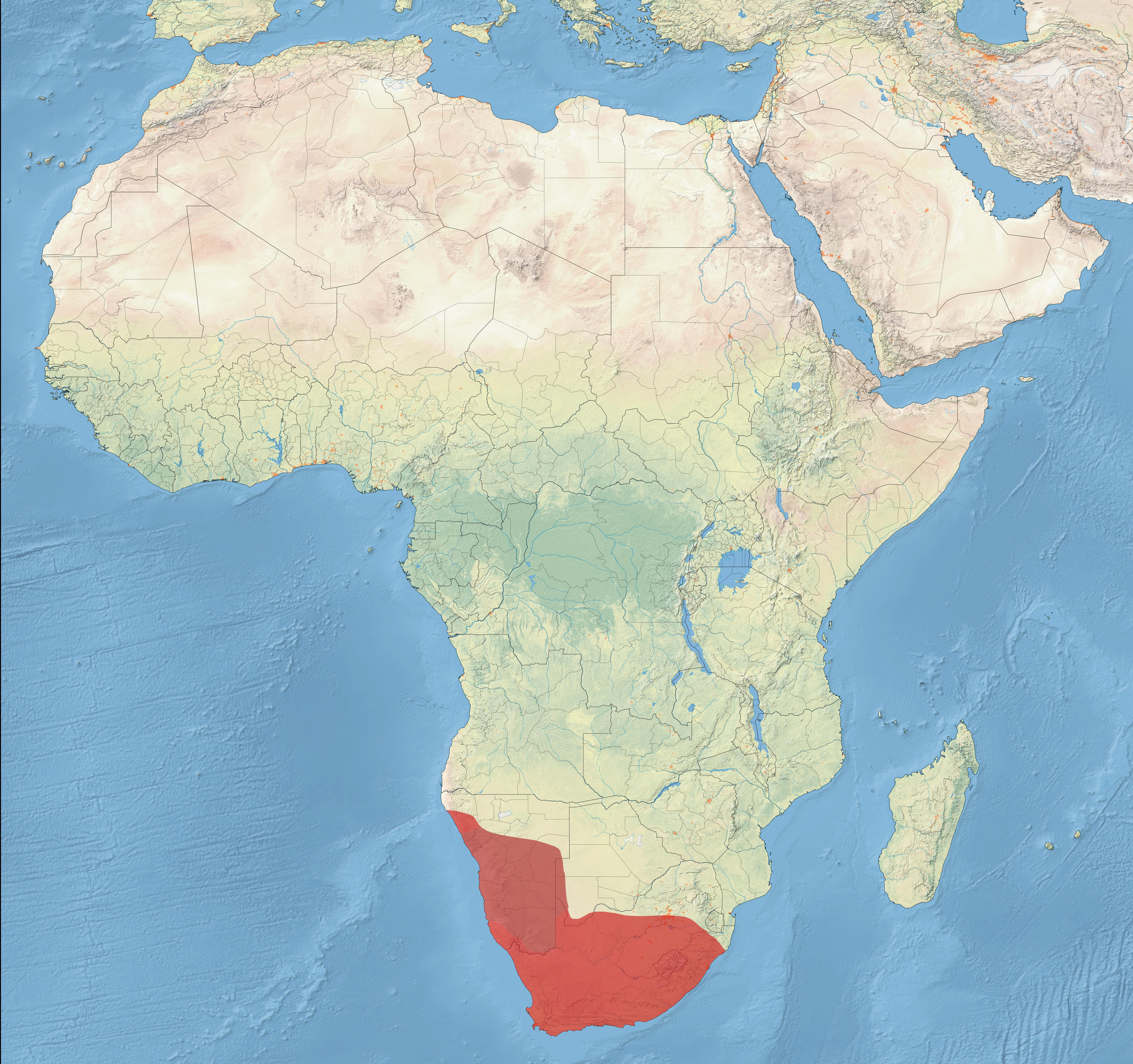 The IUCN Distribution of Black Harrier Maroon = Resident Purple = Breeding Orange = Non-breeding Hatched = Passage Grey = Possibly Extinct Blue = Introduced